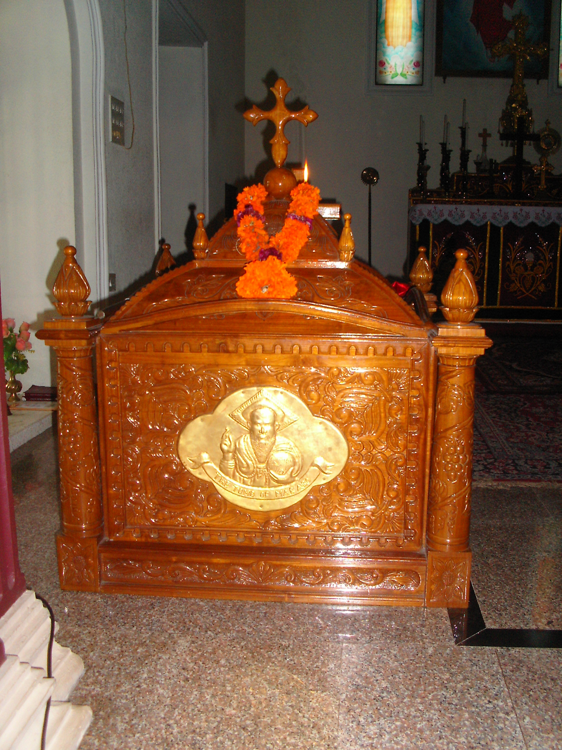 Tomb of Mar Sabor, St Mary`s Church Thevallakara, Kerala, India